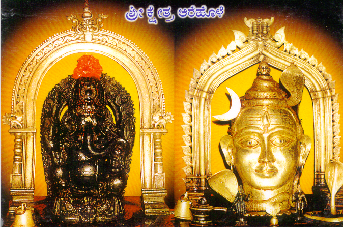 Arehole Lord. ಕನ್ನಡ: ಮಹಾಲಿಂಗೇಶ್ವರ , ಮಹಾಗಣಪತಿ ದೇವರು.